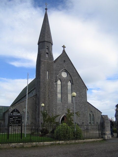 Firies: Church of St Gertrude James Joseph McCarthy, often referred to as "the Irish Pugin" was the architect of this church, which is a twin of St Mary's in Lispole. The Ordnance Survey of Ireland use Fieries as the spelling of the name of the town, but Firies seems to be more commonly used, including on the signboard outside this church.